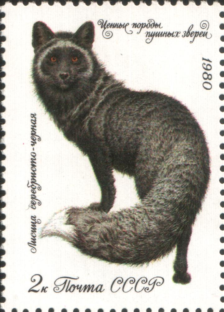 USSR stamp. Text: “Valuable breeds of fur animals. Silver-black fox ”